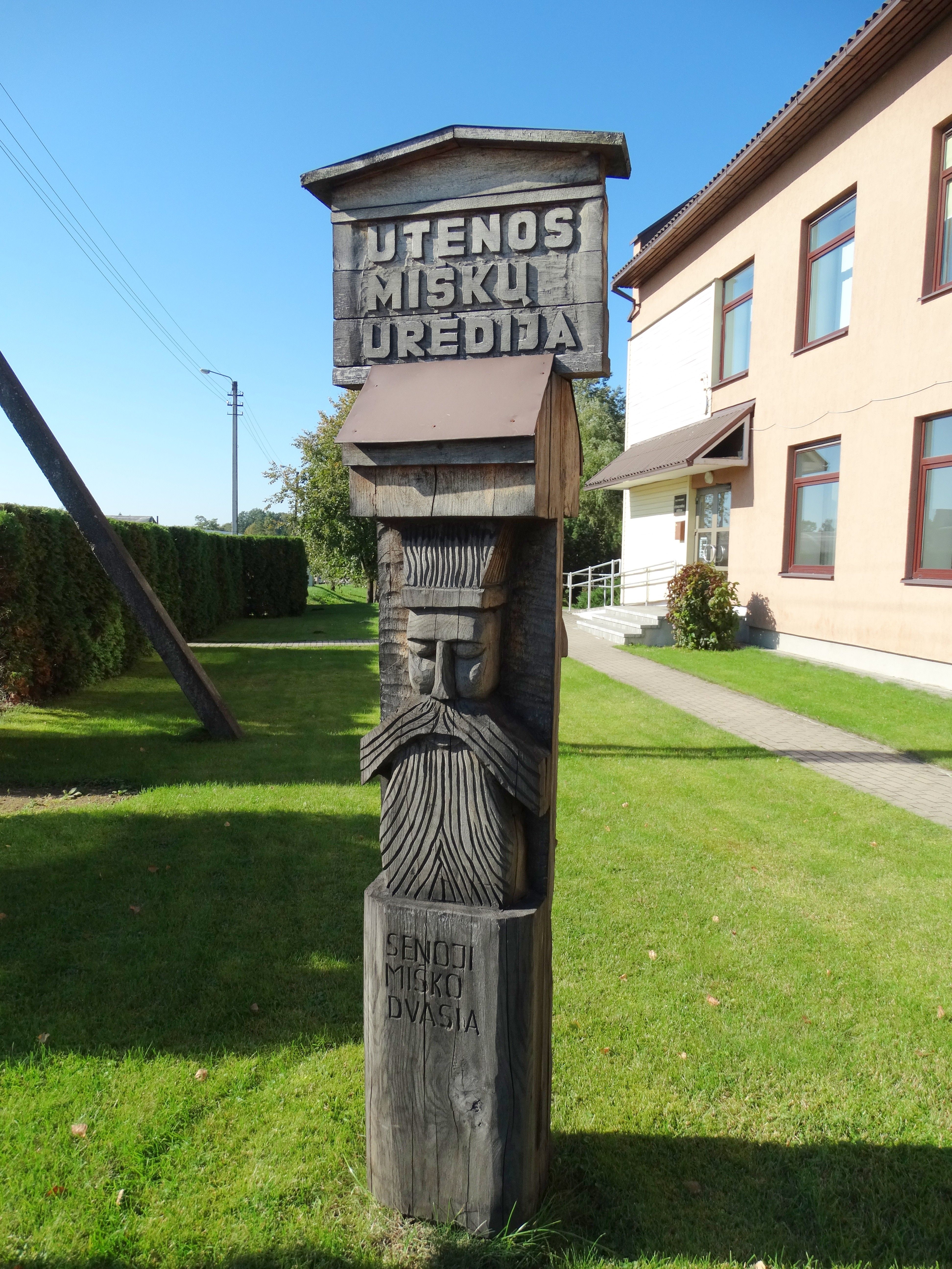 Forest enterprise, Utena, Lithuania